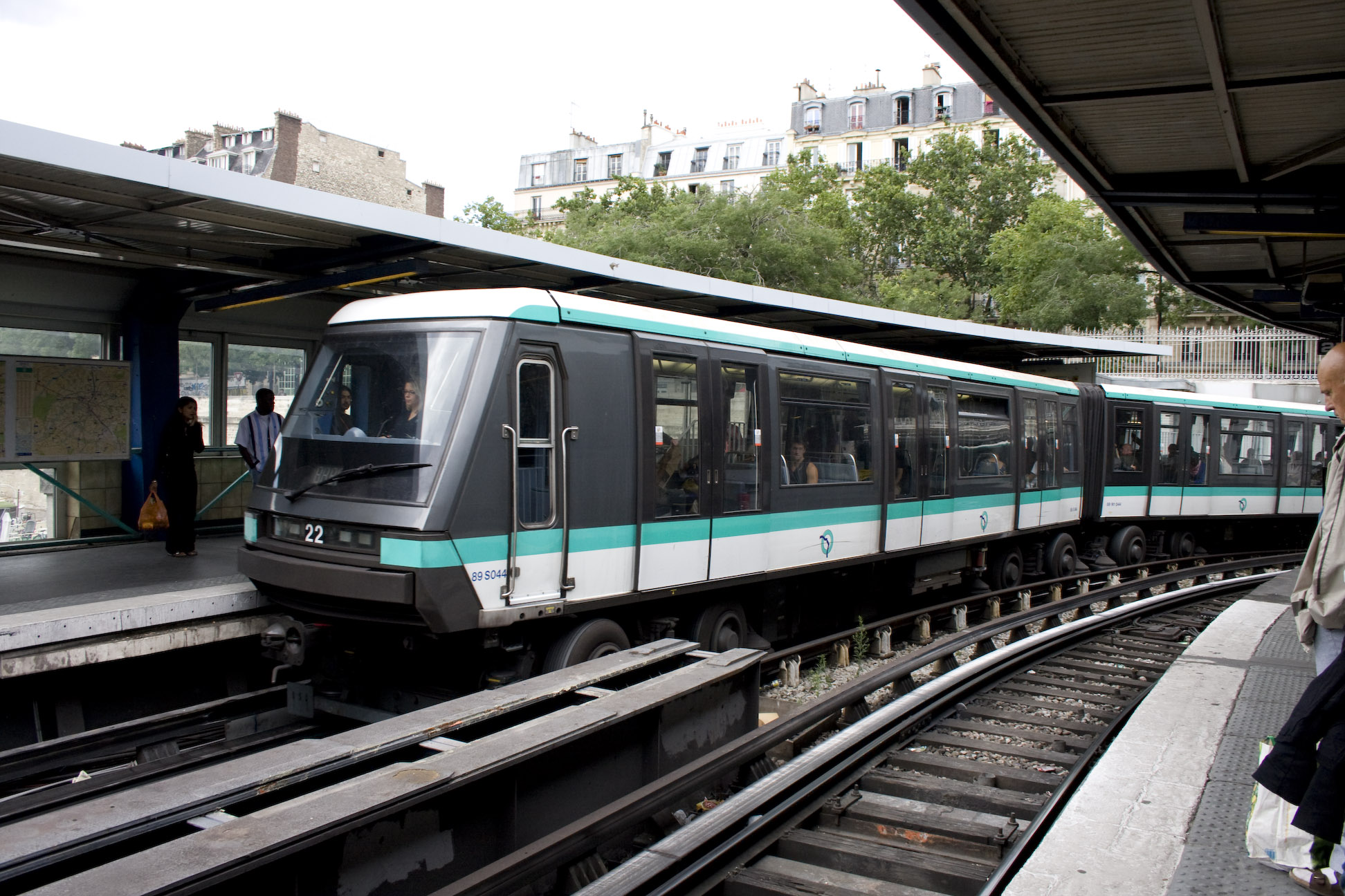 MP 89 on Bastille station of Paris Metro